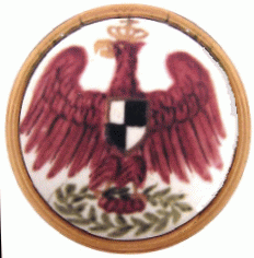 Order of the Red Eagle